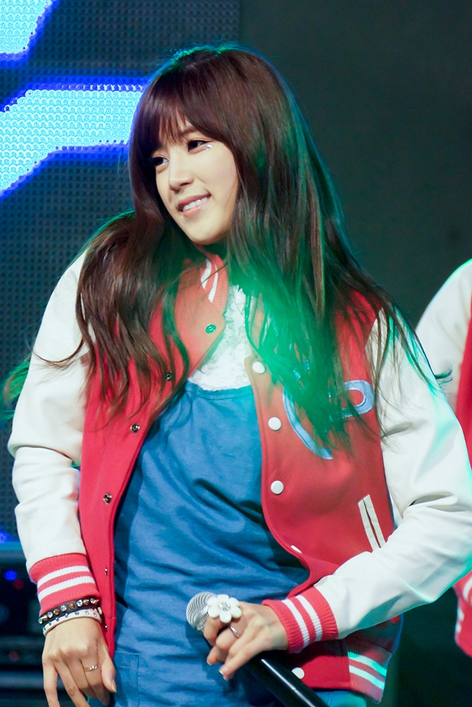 Park Chorong on October 31, 2013